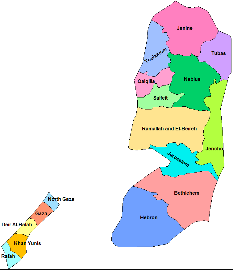 Map of the governorates of Palestine. Created by Rarelibra 21:51, 17 April 2007 (UTC) for public domain use, using MapInfo Professinal v8.5 and various mapping resources.